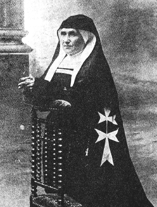 ordre du saint esprit